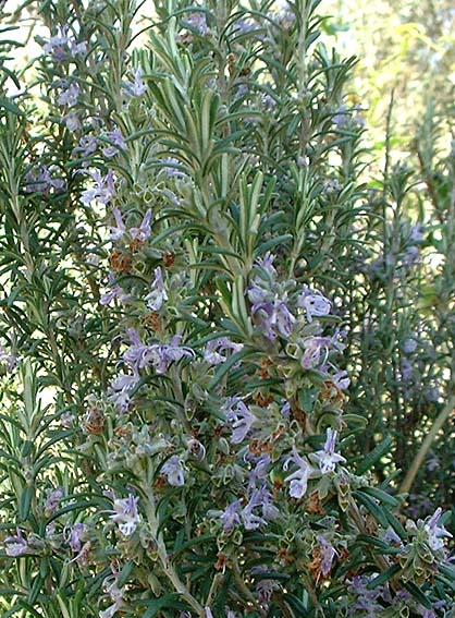 Romarin Photo Jean Tosti (31/03/04)